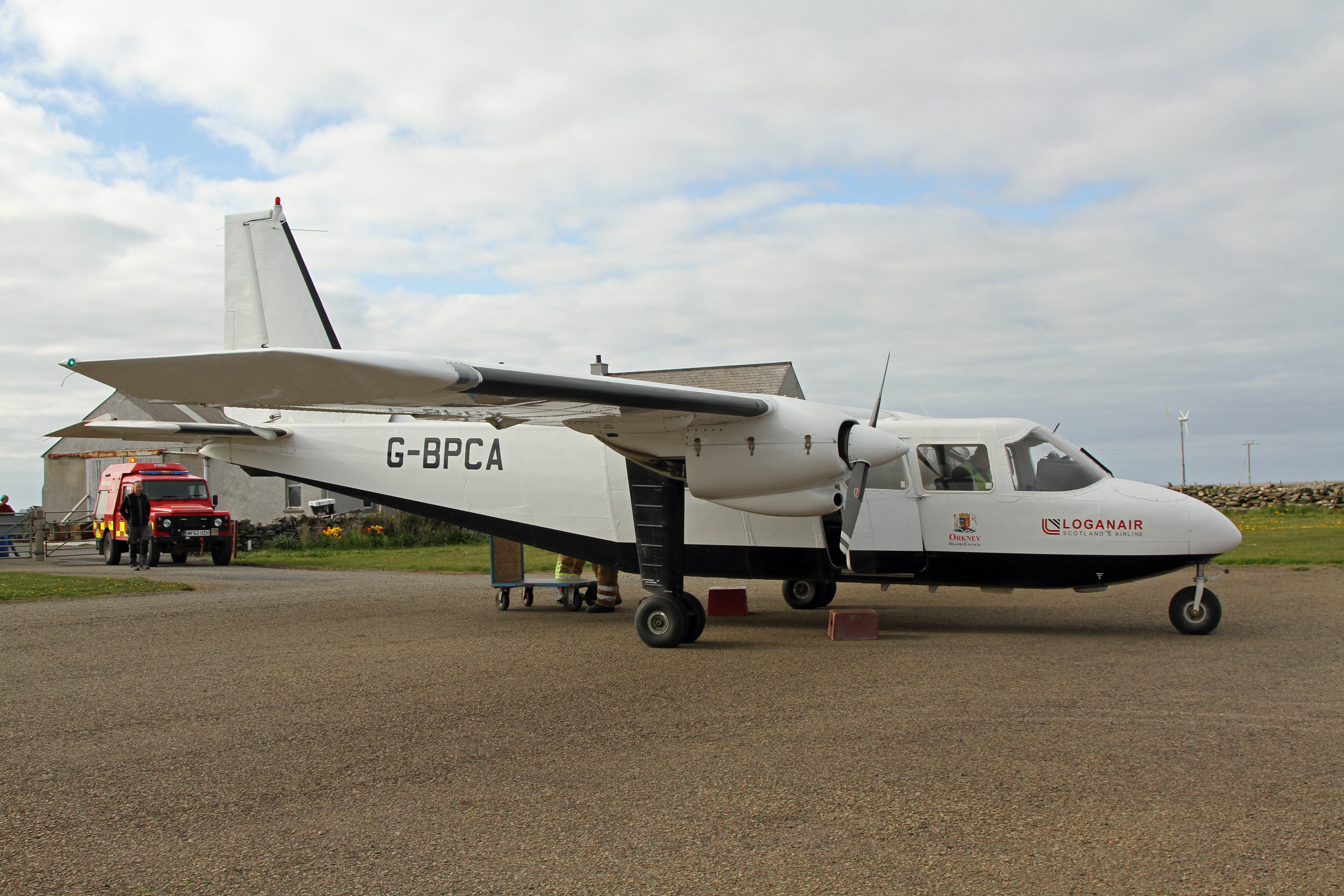 G-BPCA Britten Norman Islander Loganair during its brief turn round at North Ronaldsay Airport 14-05-2015